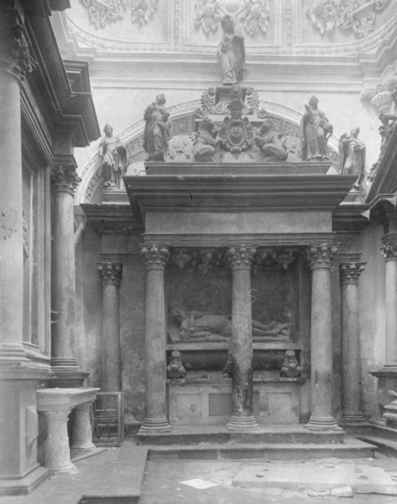 Tomb of Hieronim Adam Sieniawski (1627)